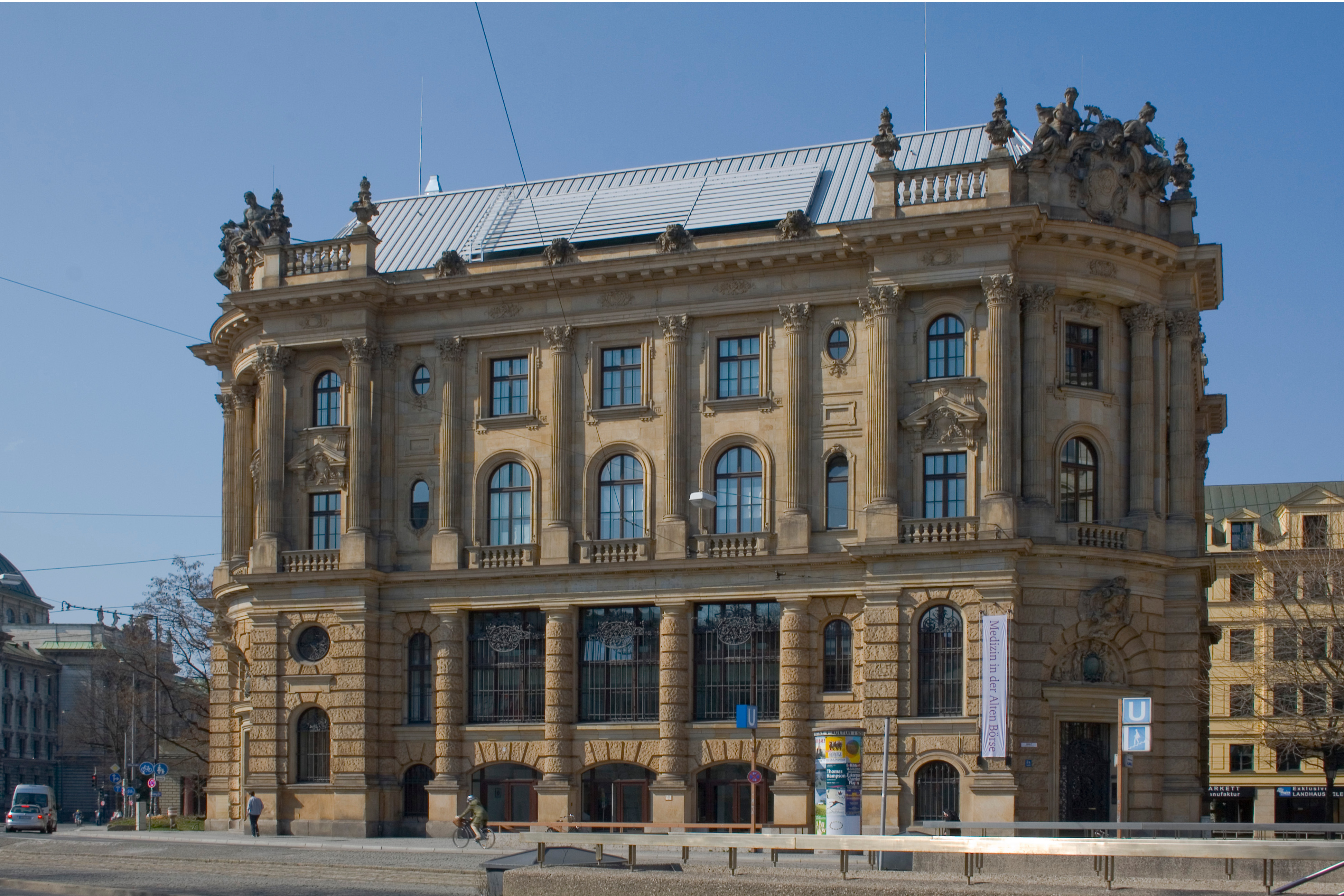 Old Munich Stock Exchange, Munich, Germany